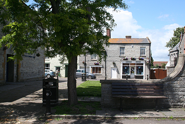 Ilchester: towards the Post Office